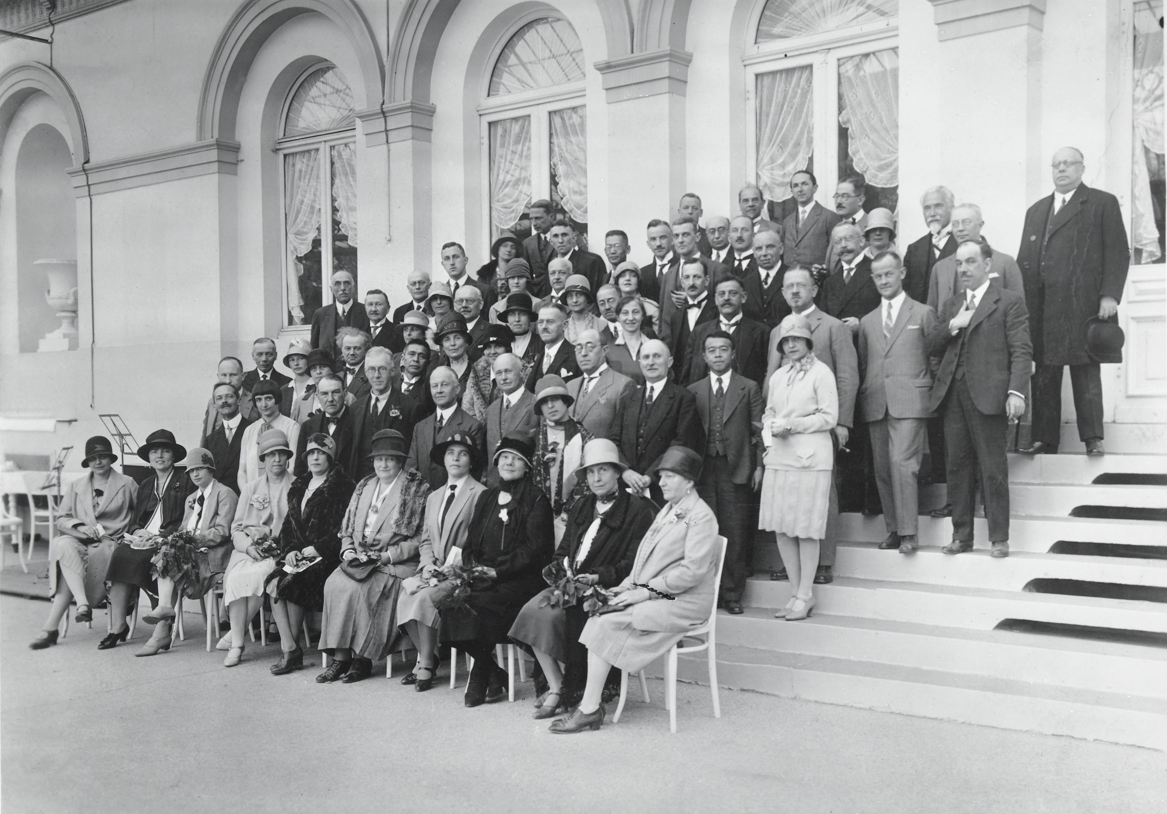 Wellcome Physiological Research Laboratories 'Old Boys' at Langley Court. Including Percival Hartley, Harold Burn and Arthur Elvins. Archives & Manuscripts Keywords: Wellcome Physiological Research Laboratories